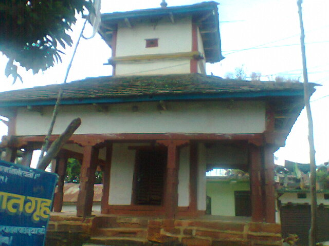 Batuk Bhairav ??Temple